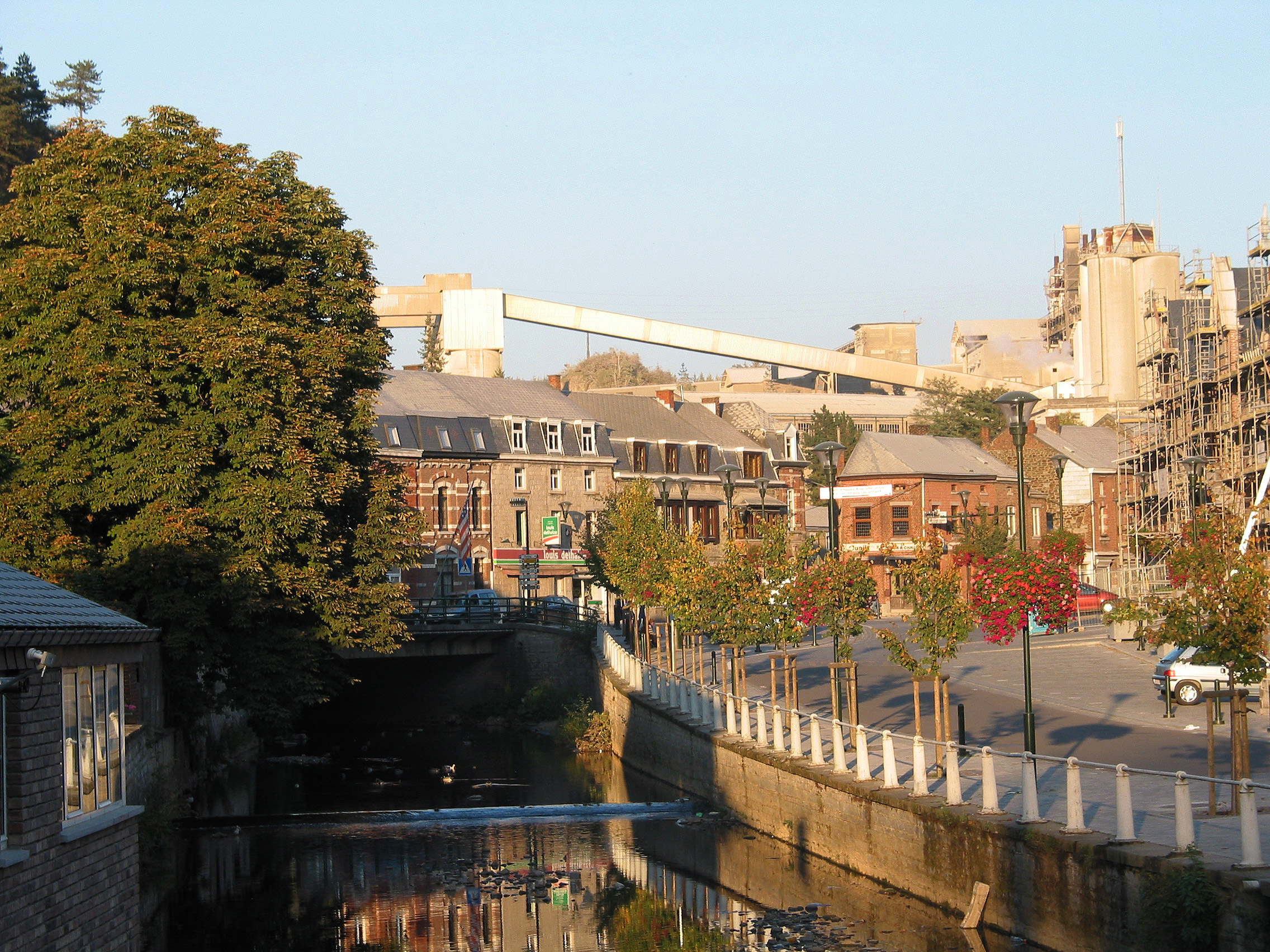 Jemelle (Belgium), the Wamme river and the Lhoist quaries.